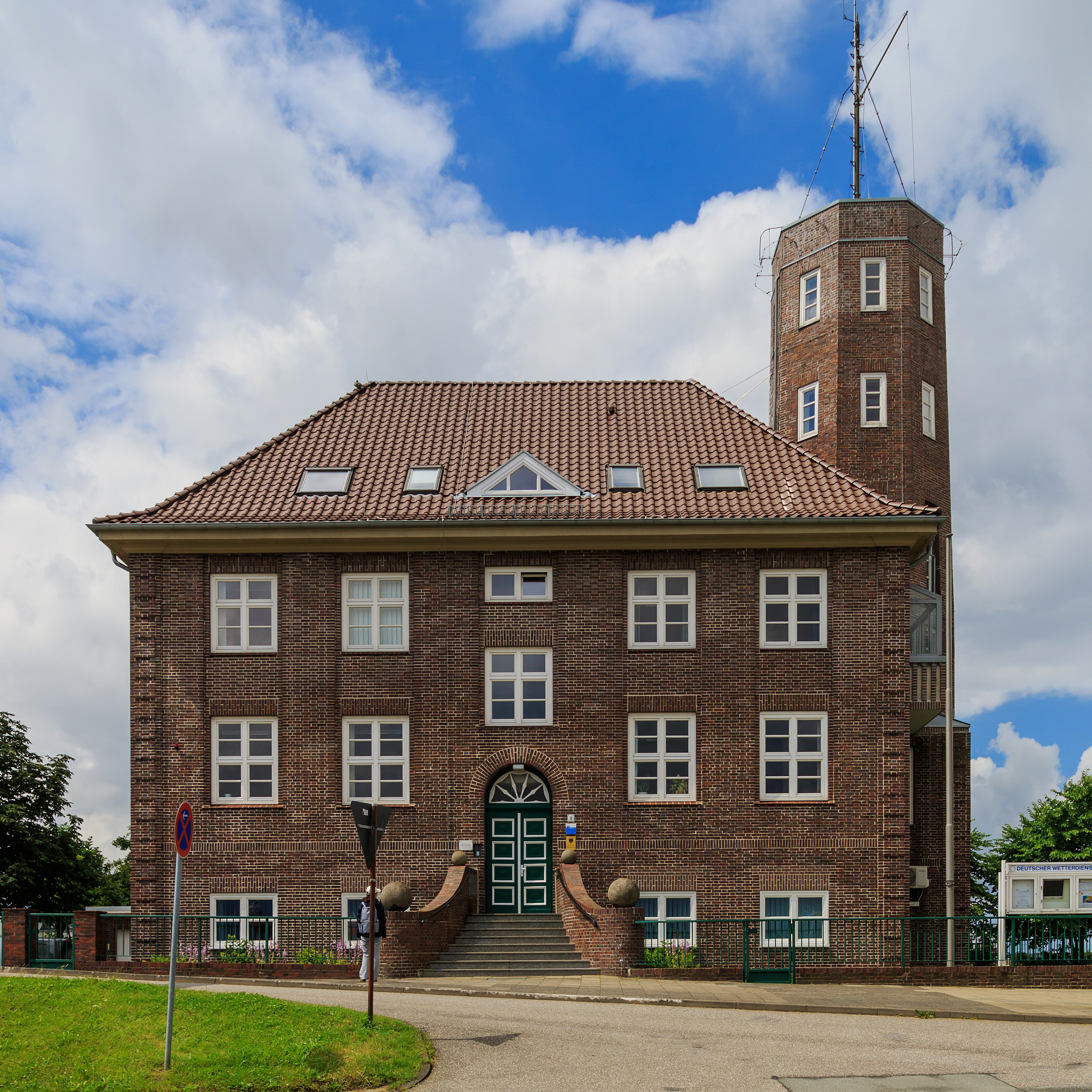 Sea port and its surroundings in Cuxhaven, Germany